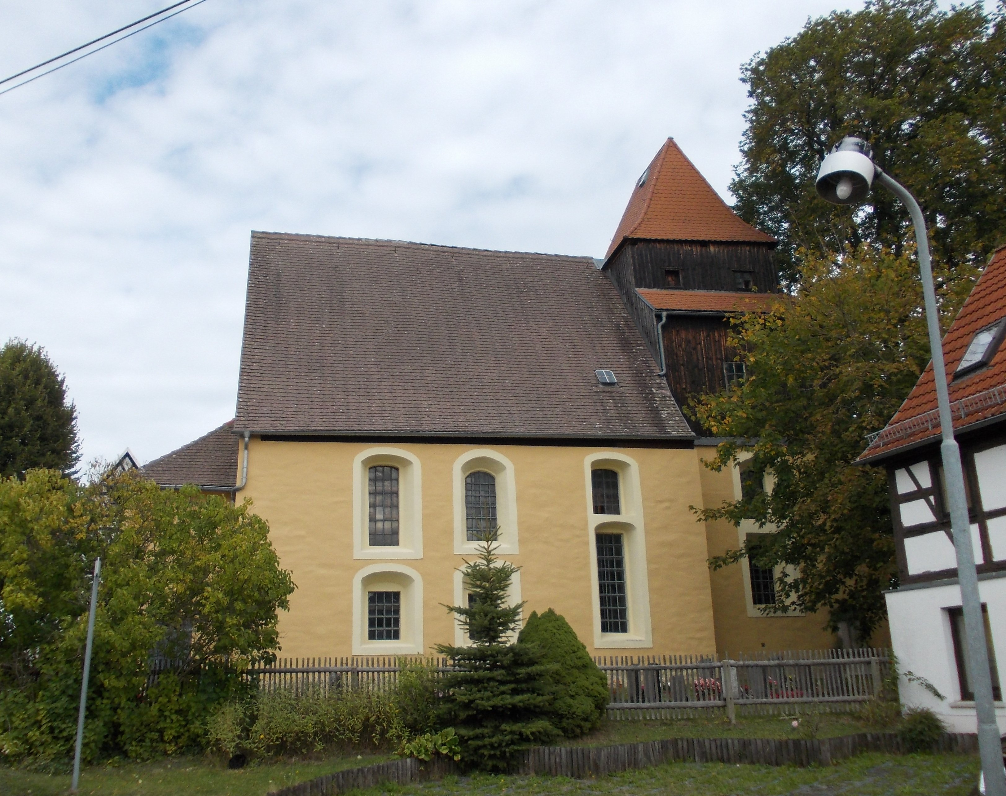 Church of Hope in Clodra (Berga/Elster, Greiz district, Thuringia)